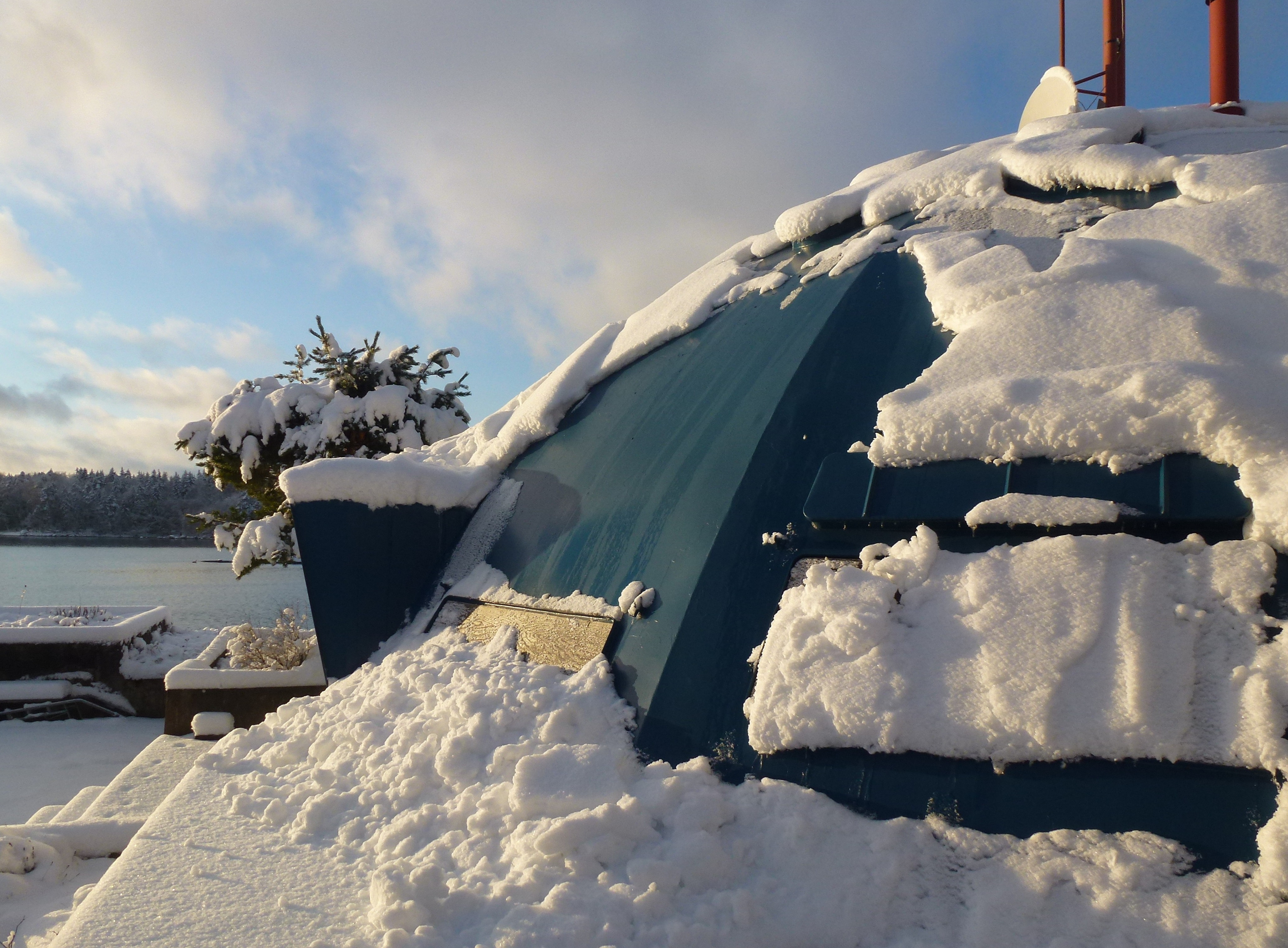 Villa Engström "Kupolvillan", arkitekt Ralph Erskine